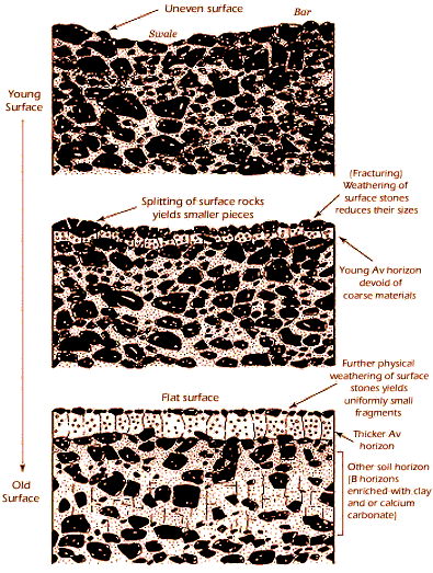 Desert pavement